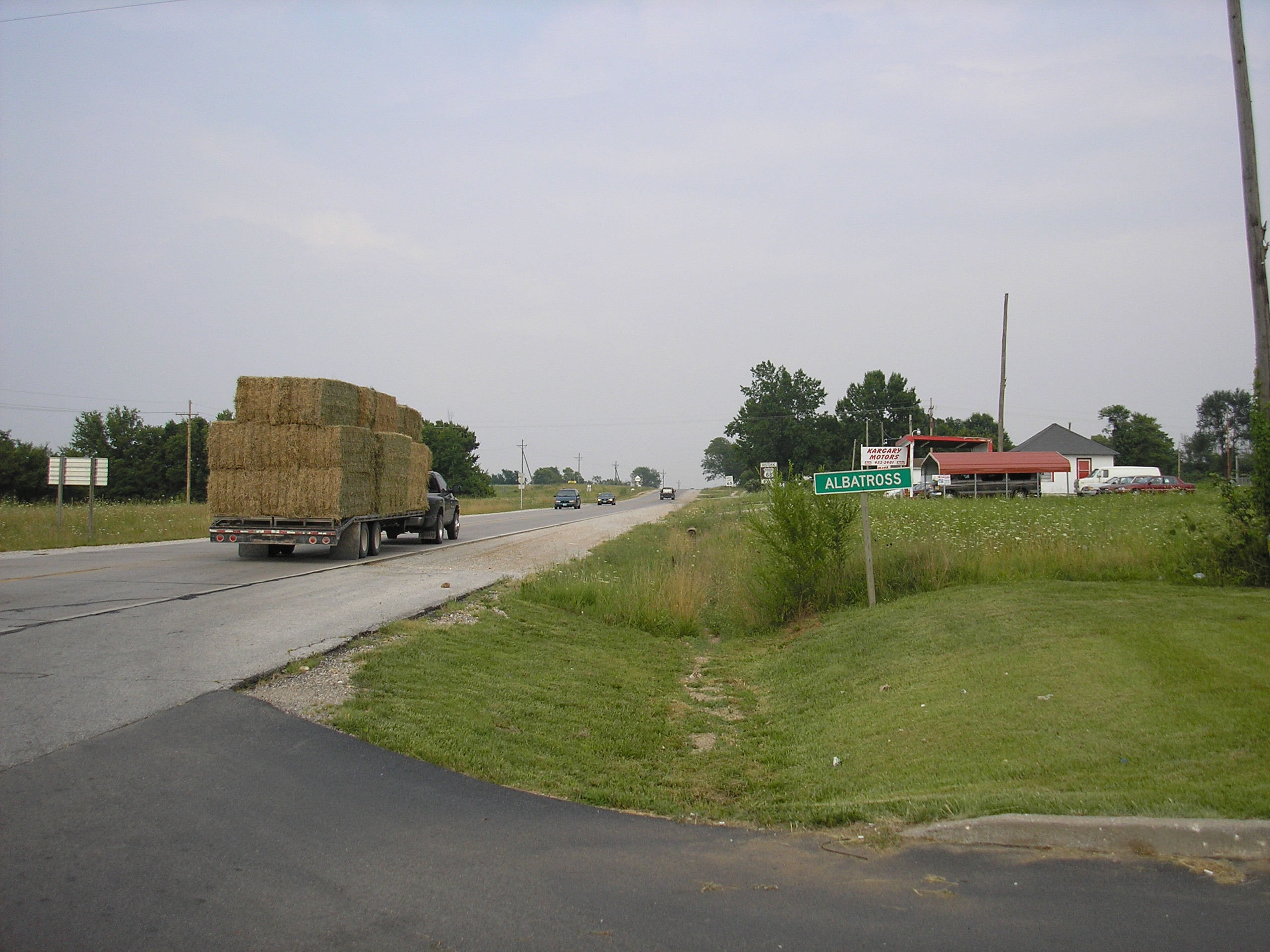 Albatross, Missouri. Self-taken photo. Category:Images of Missouri